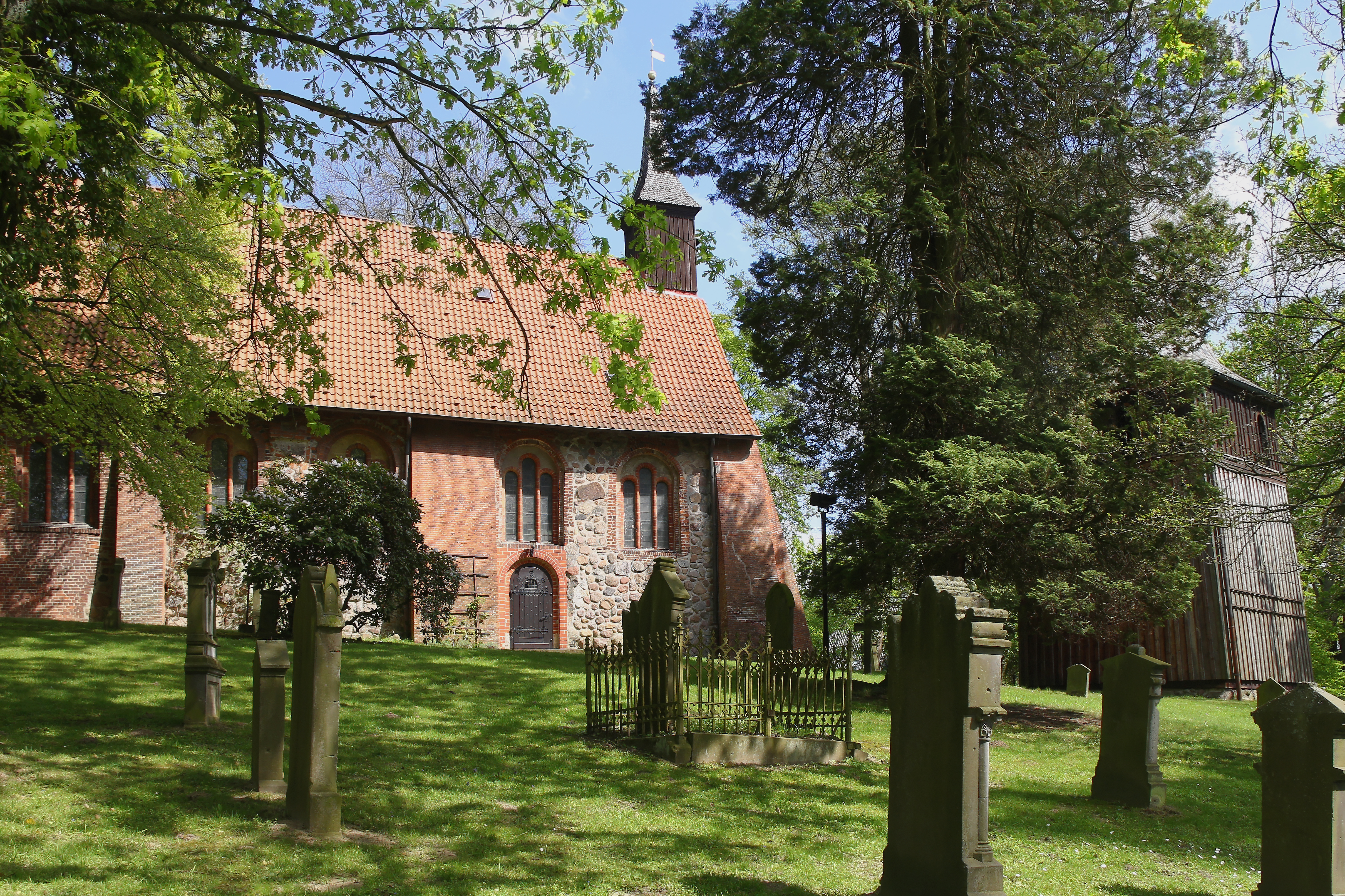 Church and old cemetery in Hamburg-Sinstorf